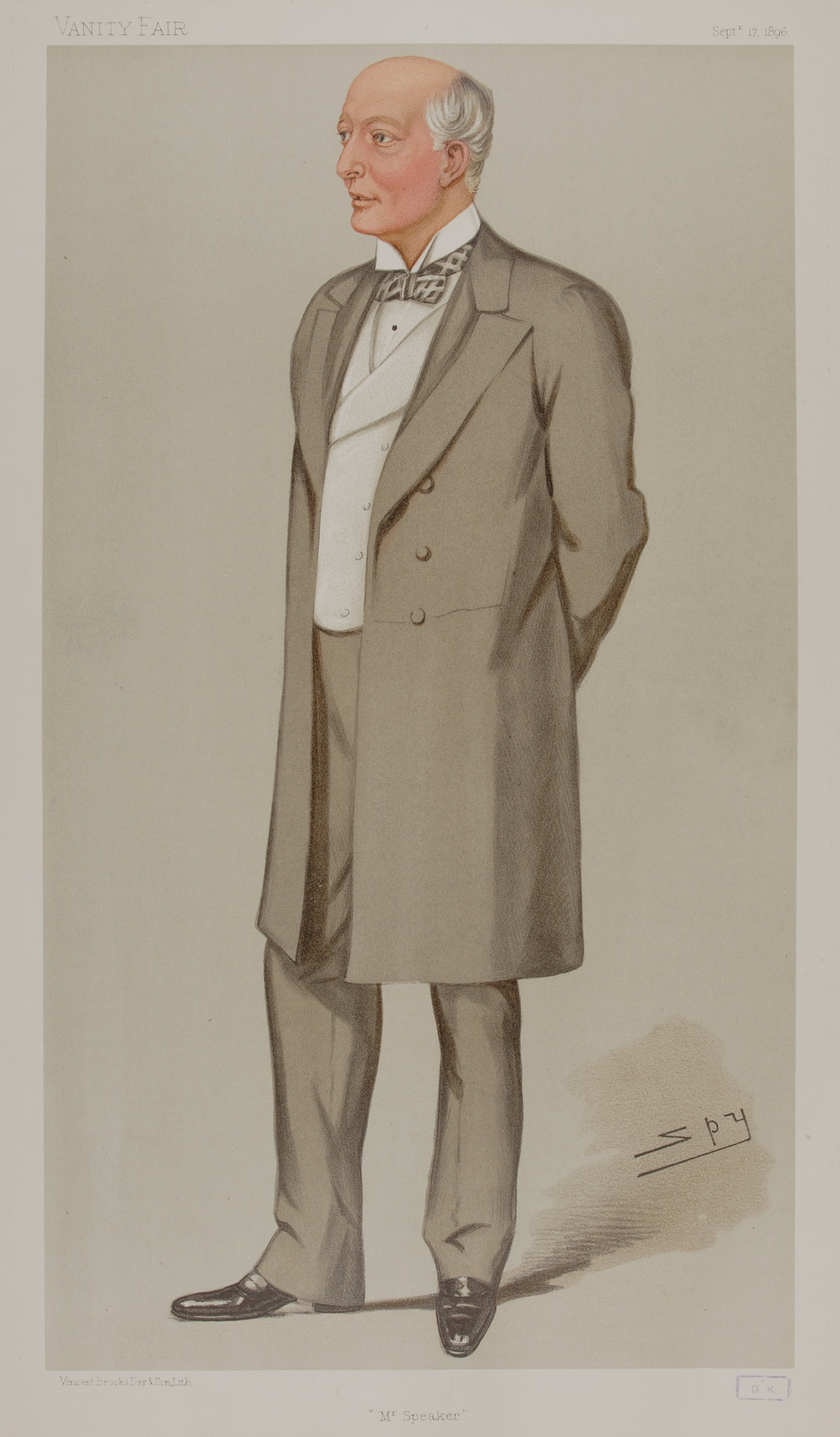 Statesmen No. 677: Caricature of William Court Gully, P.C., Q.C.. Caption read "Mr Speaker".